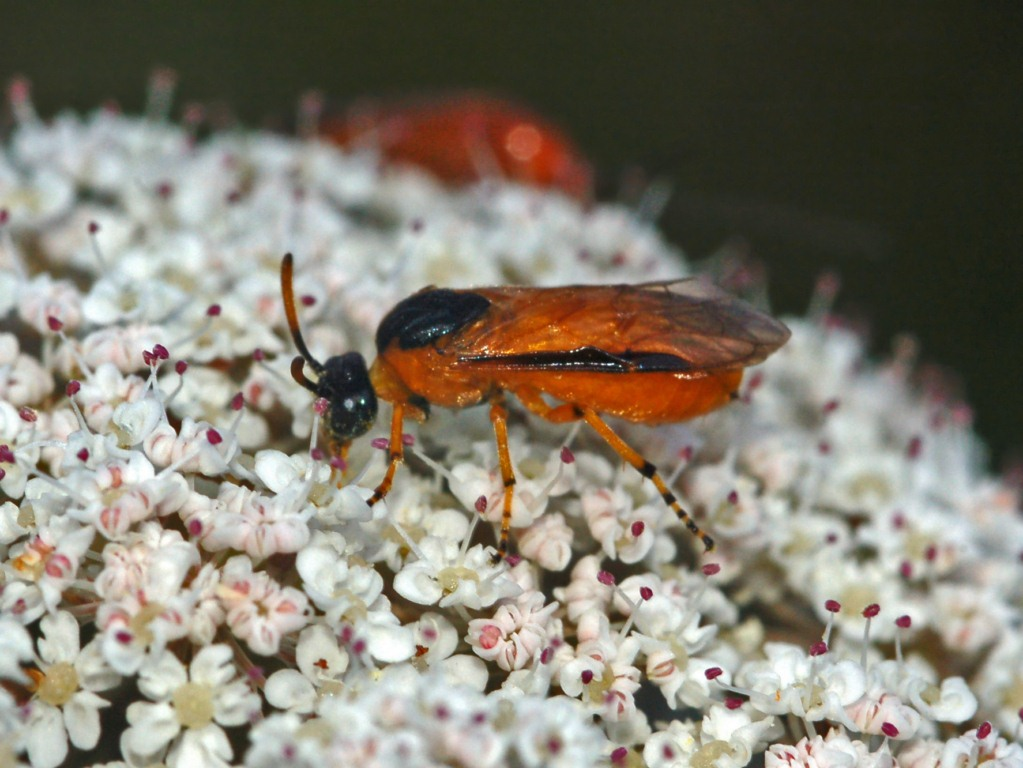 Argidae - Arge ochropus - Piani di Praglia, Genova, Italy